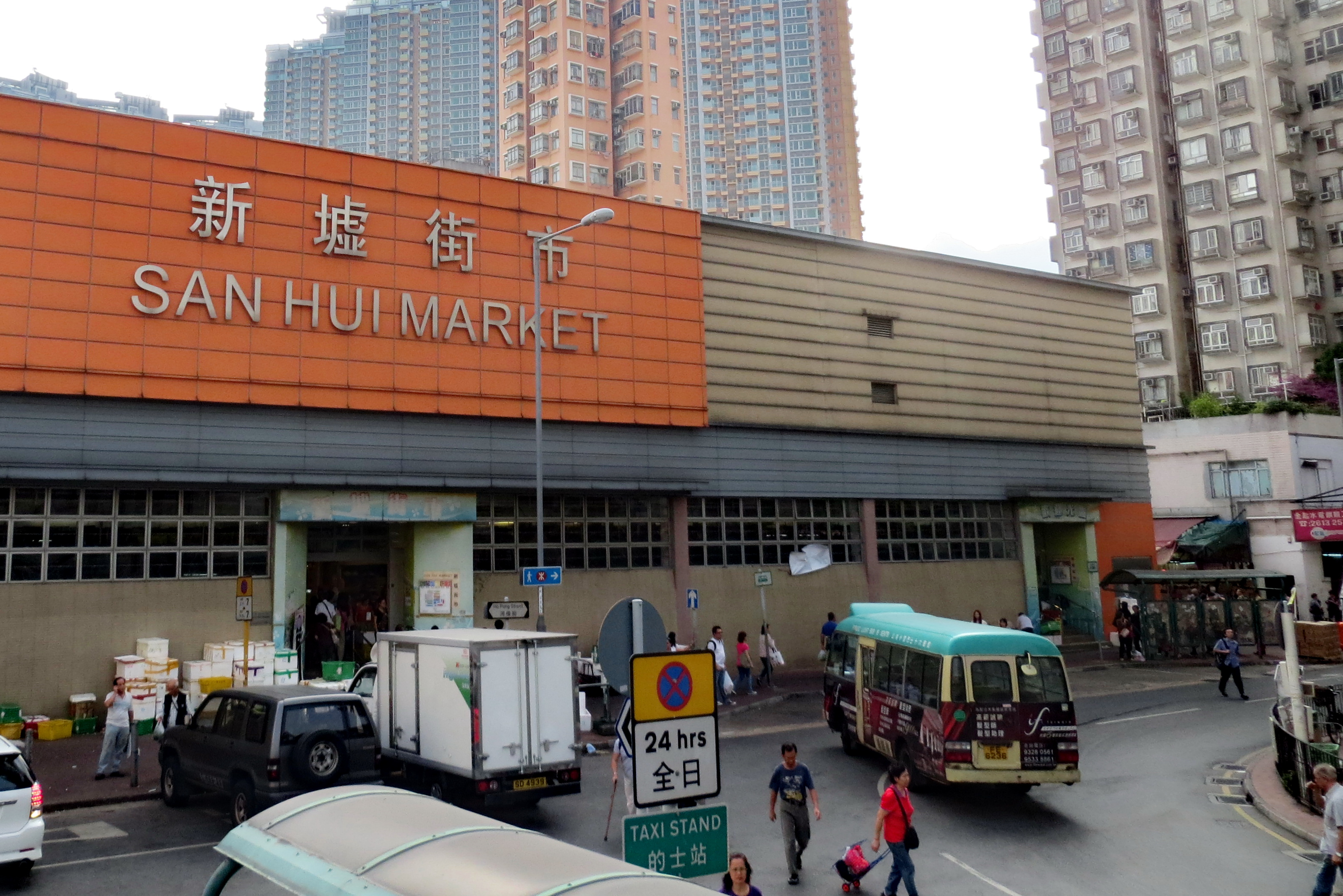 Minibus Terminus at the north side of San Hui Market, Tuen Mun, New Territories, Hong Kong.